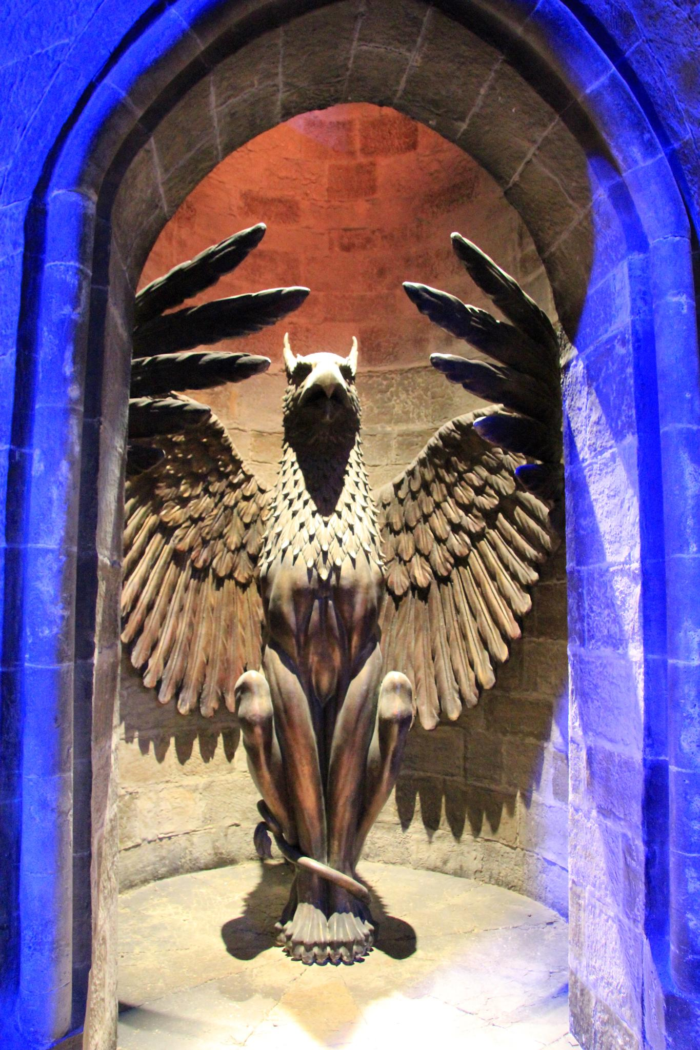 Warner Bros. Studio Tour London: The Making of Harry Potter.